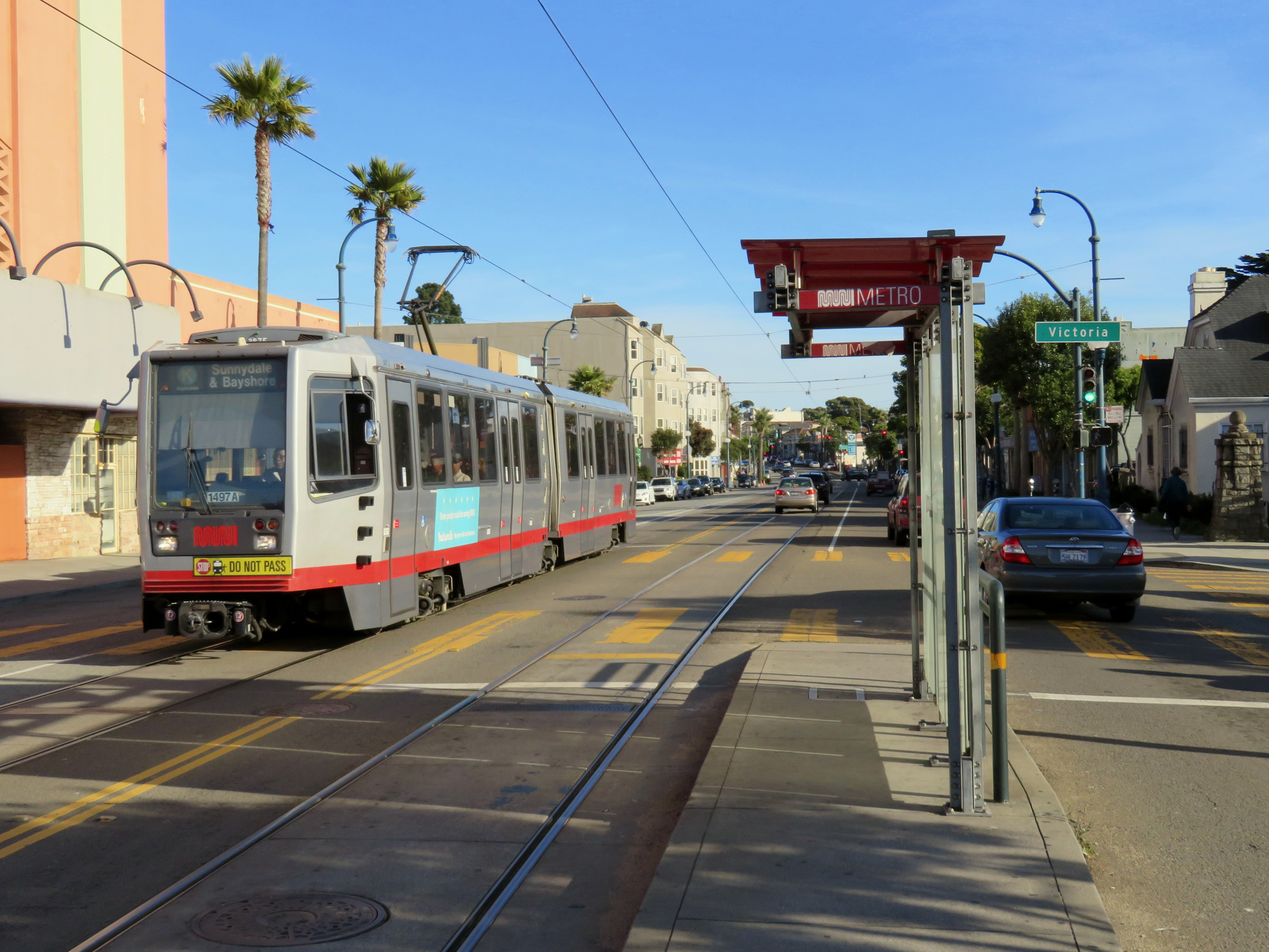 Inbound train passes the outbound platform of Ocean and Victoria station in January 2018